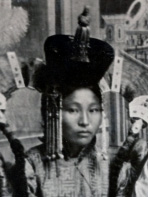 Yanjmaa Licensing CAUTION - Presumed published in Mongolia in or about 1920. Actual publication may be after 1923. First publication in US was probably many years later.